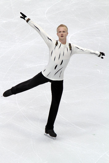 Adrian Schultheiss at the 2010 Winter Olympics.